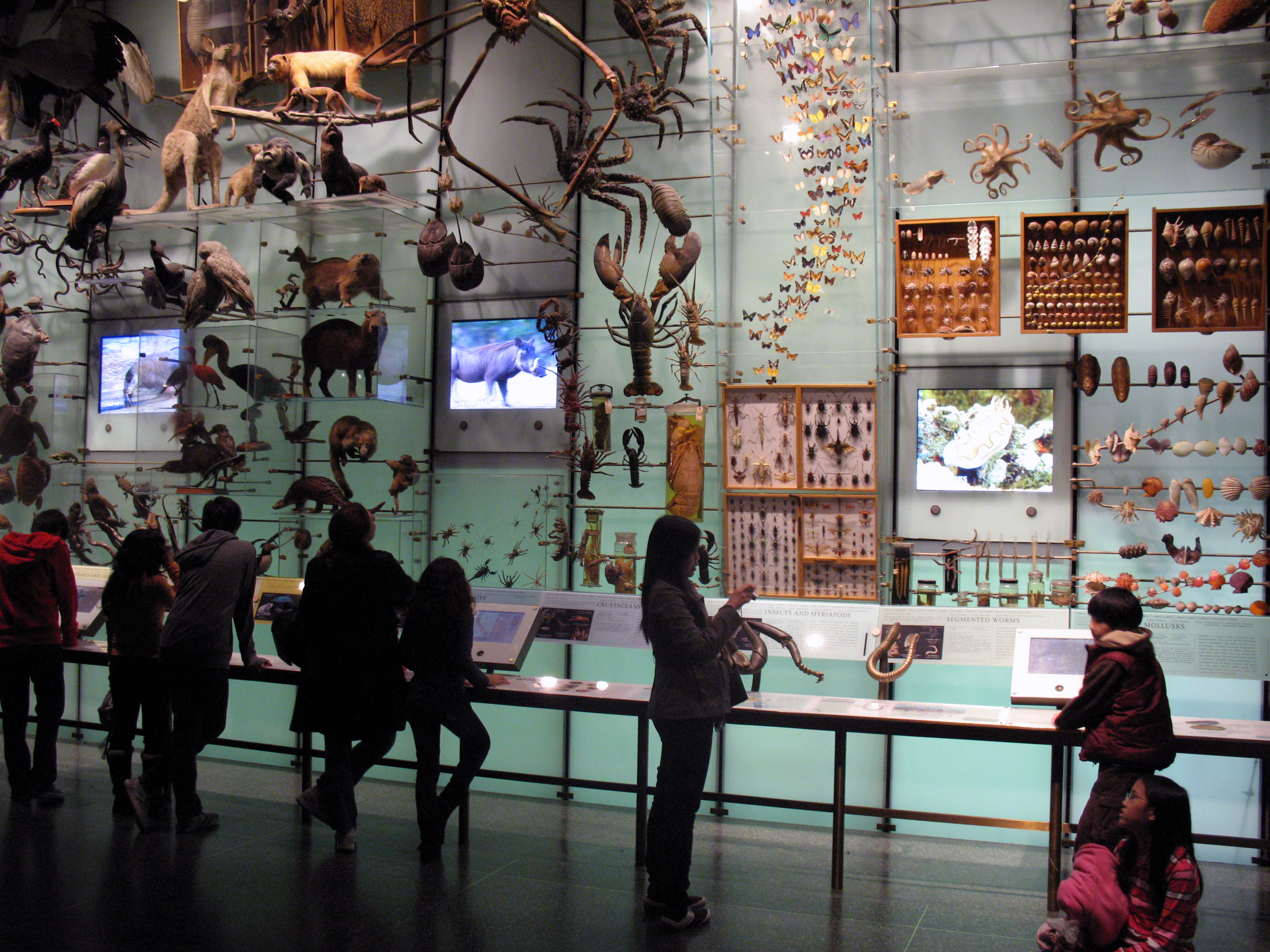 American Museum of Natural History, New York: Hall of Biodiversity